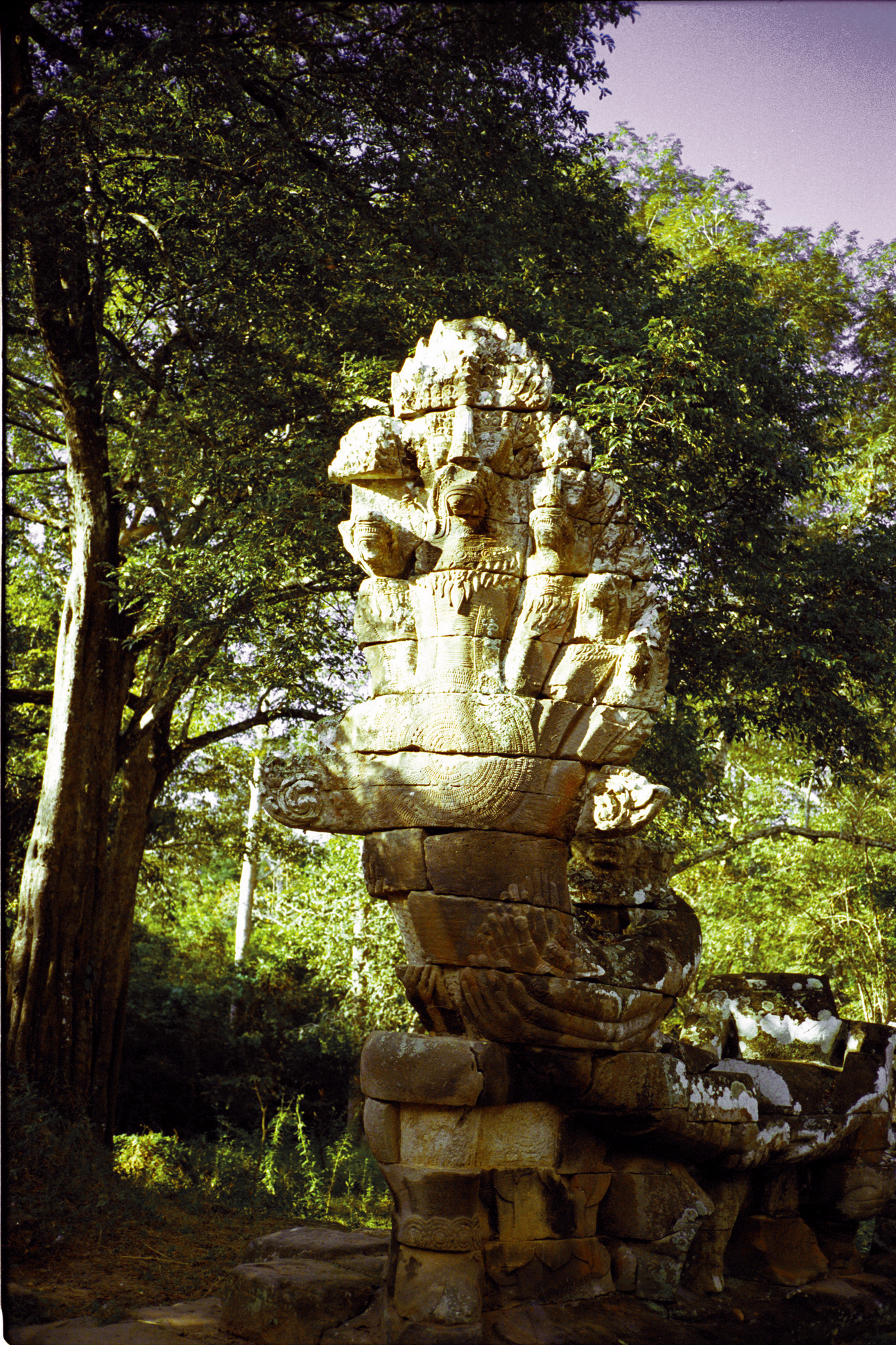 Seven-headed naga from the entrance of an Angkor Thom gate